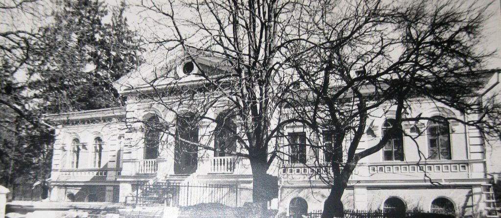 Historic image of the Balioz mansion in Ivancea, Orhei District, Republic of Moldova